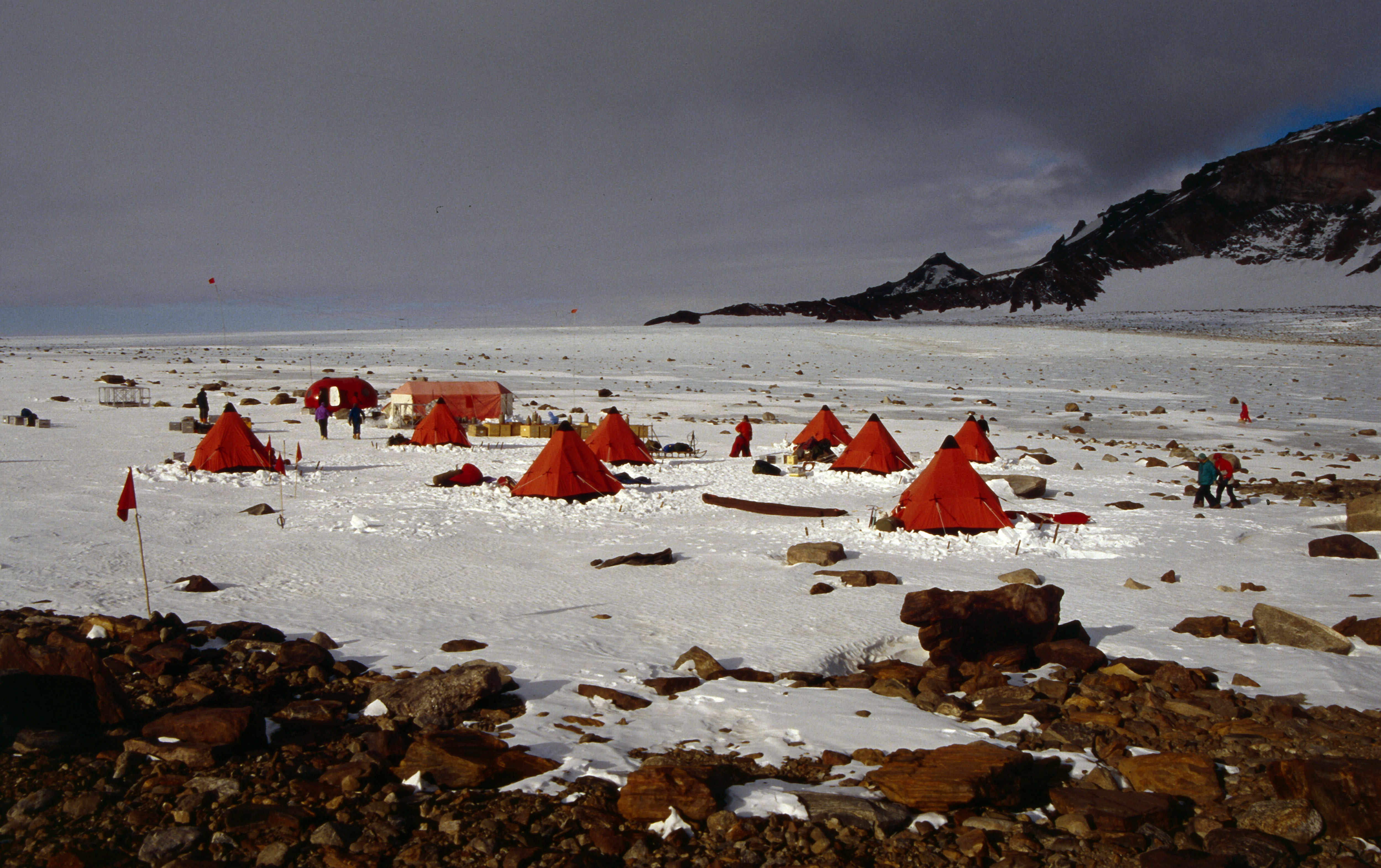 The fieldcamp of the GeoMaud expedition near Mount Dallmann, Antarctica